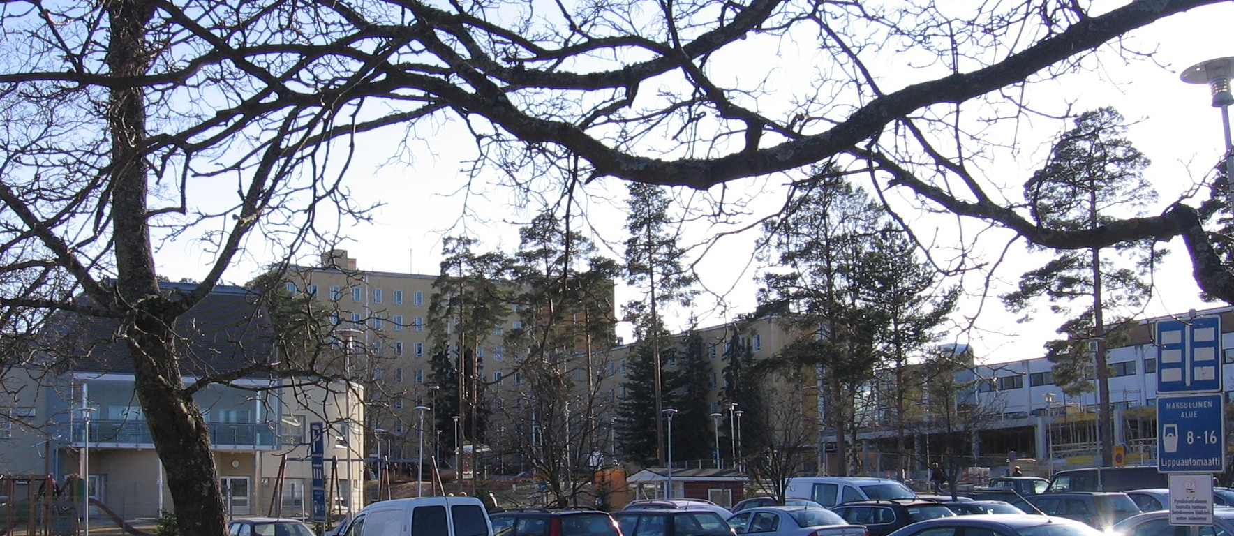 Satakunta Central Hospital